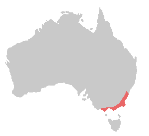 Summary Distribution map of the Gang-gang Cockatoo (Callocephalon fimbriatum) Based on Image:BlankMap Australia.png Kiwifruitboi 05:17, 8 January 2006 (UTC)